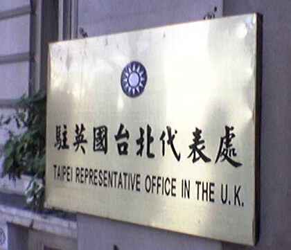 Taken by Quiensabe outside the Taipei Representative Office in the in the UK, 21st February 2007, using a Nokia 6230 mobile phone. Originally at Image:Trouk.jpg